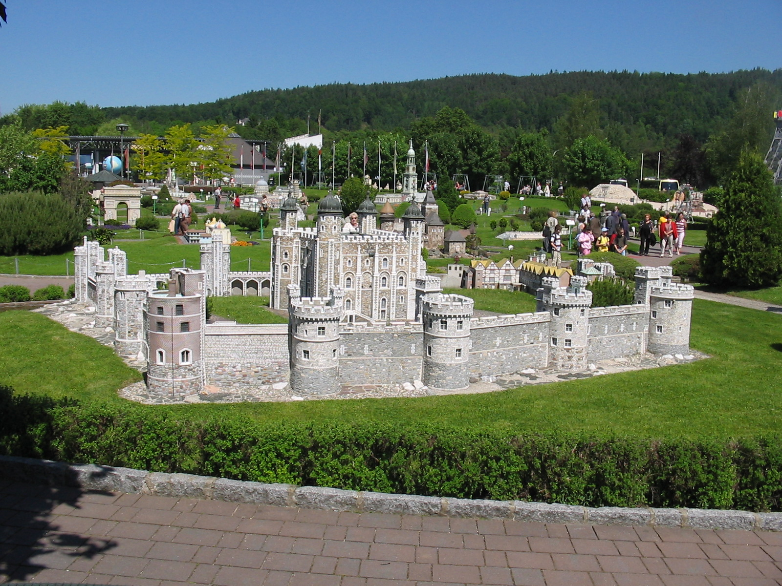 Tower of London at Minimundus Klagenfurt